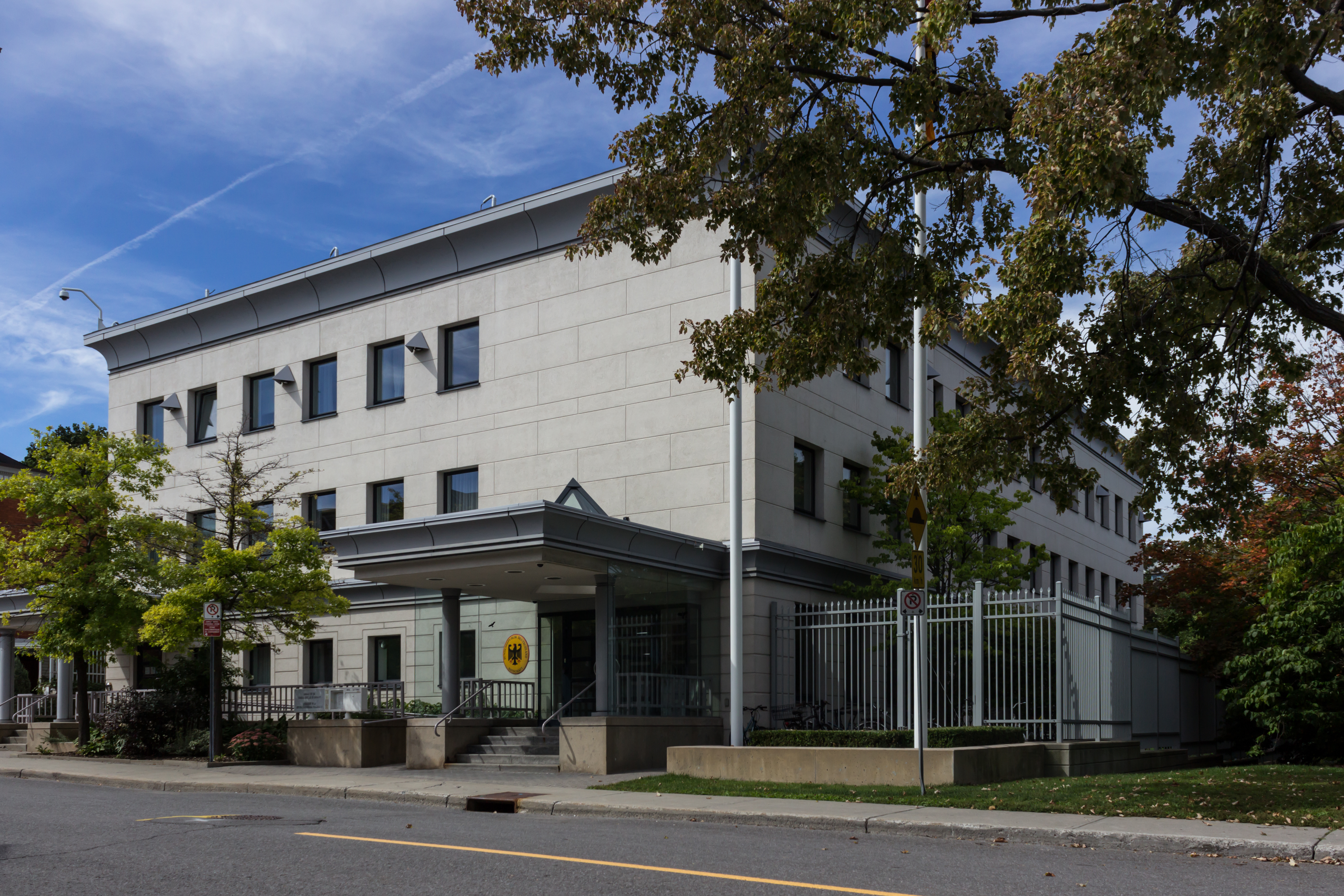 The german embassy at Waverly St. and Queen Elizabeth Drive in Ottawa